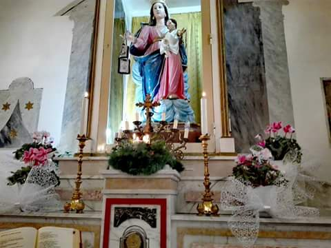 Madonna del Carmine